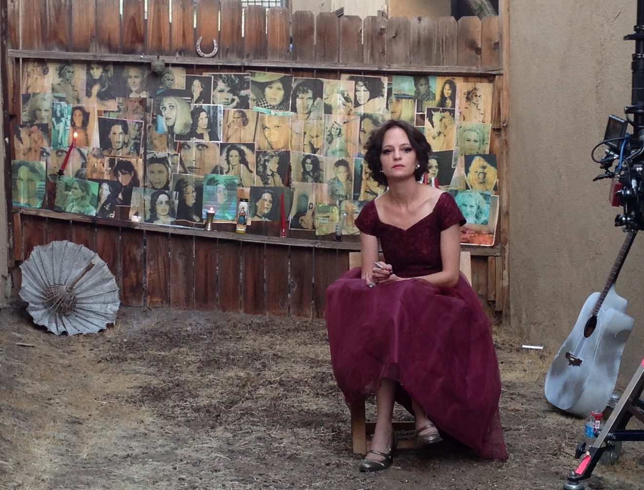 Angela Bettis in Movie Music Kills A Kiss (2013 music video by Califone)